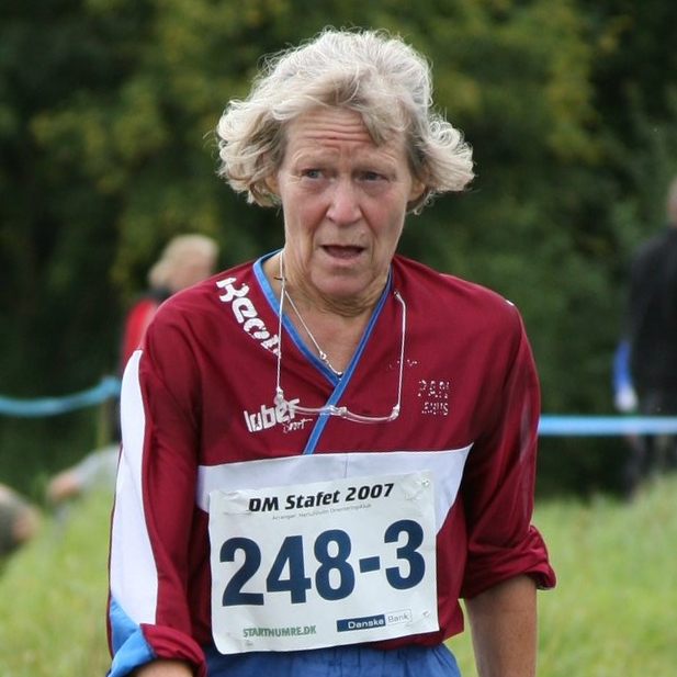 Mona Nørgaard (DEN) The crop and rotated version of the original file